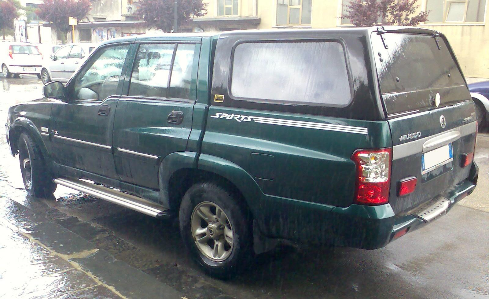 SsangYong Musso Sports